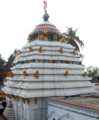 Akhandalamani temple, at Aradi village, Orissa, India, is dedicated to lord Siva. The present fifty-foot-tall cement and concrete temple structure was constructed replacing a wooden temple some time between 1830-1840 AD.